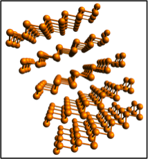 Molecular representation of bulk black phosphorus